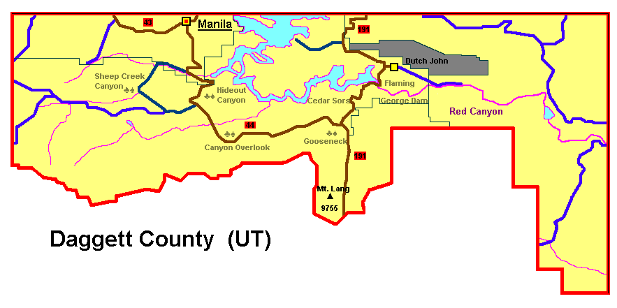 Duggett County (UT) details, selfmade graphic by R.Blauert Dk4hb